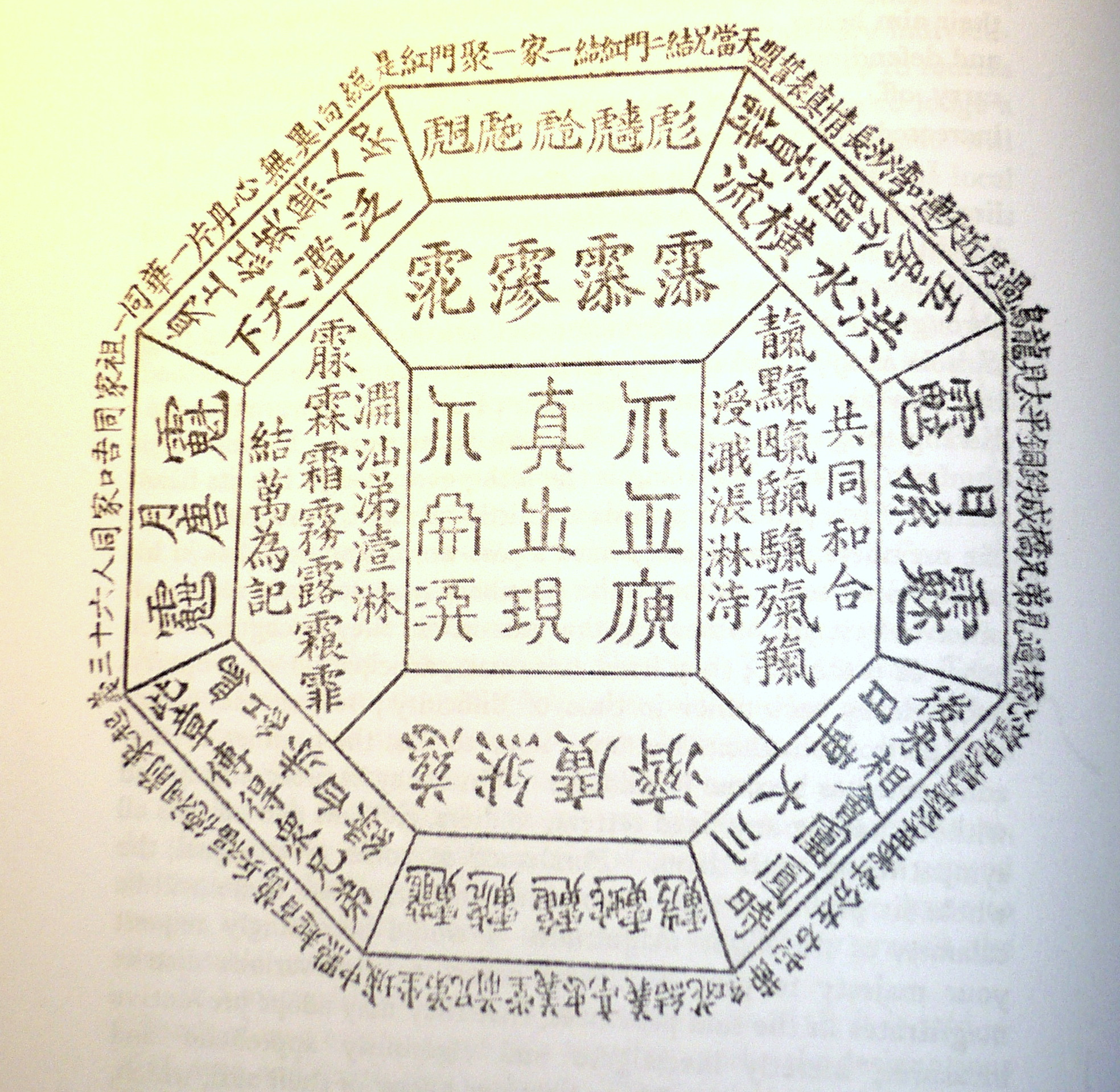 Triad seal in 19th century